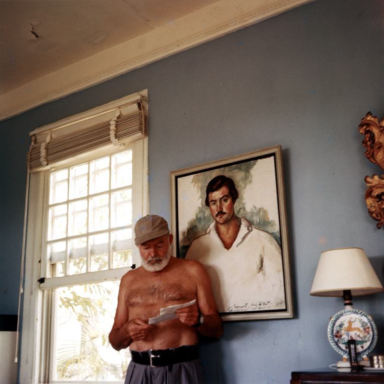 Ernest Hemingway at his home in Cuba, circa 1953, standing in front of a 1929 portrait of himself by Waldo Peirce.